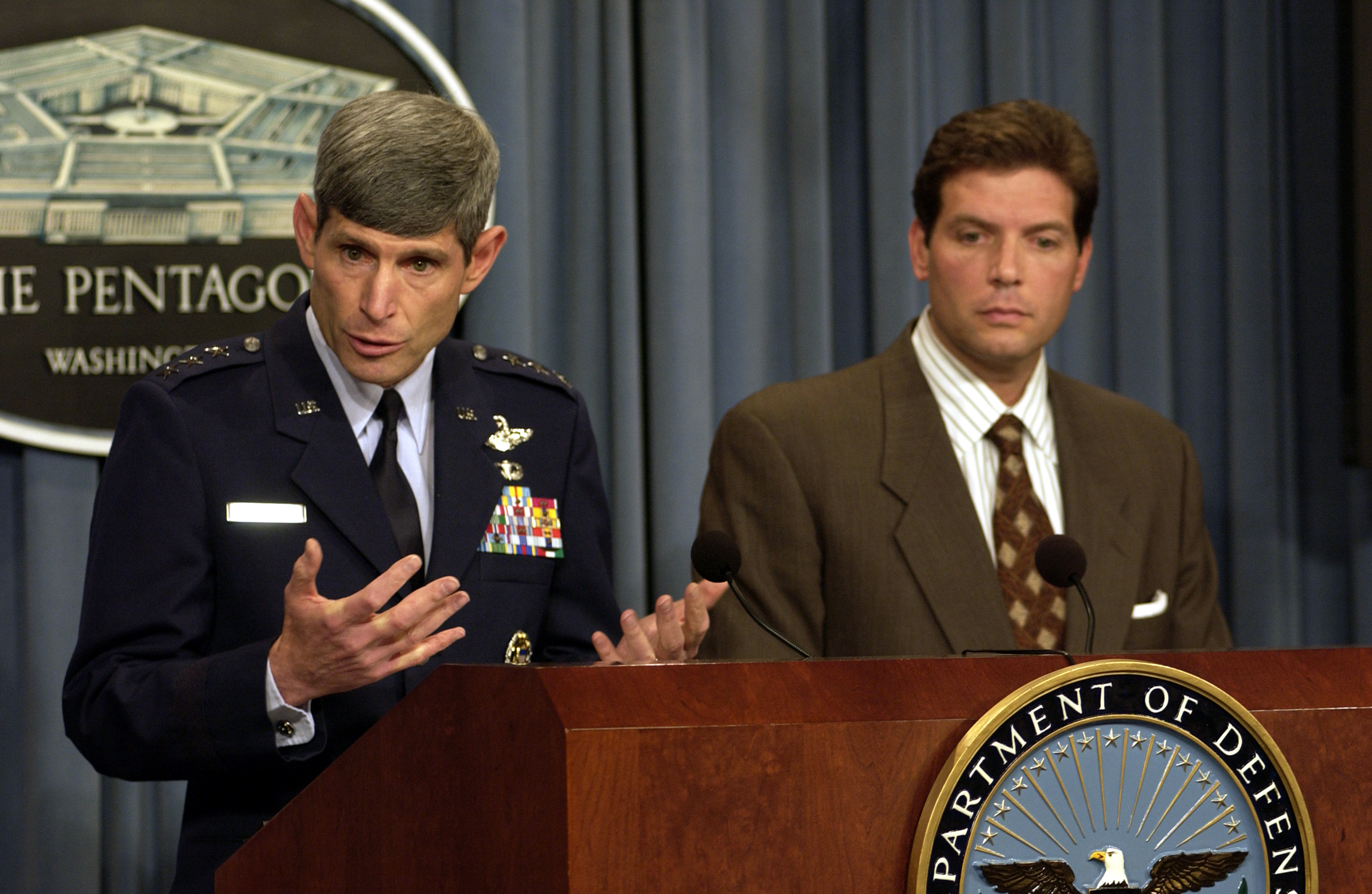 Director for Operations of the Joint Staff, J-3, Lt. Gen. Norton Schwartz, U.S. Air Force, briefs reporters in the Pentagon on Aug. 7, 2003. Schwartz and Special Assistant to the Secretary of Defense Lawrence Di Rita briefed reporters on the coalition's progress in Iraq.